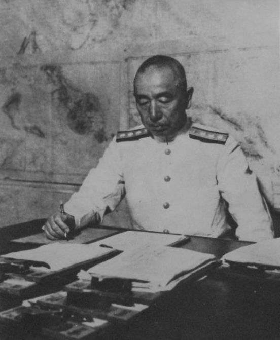 Koga Mineichi